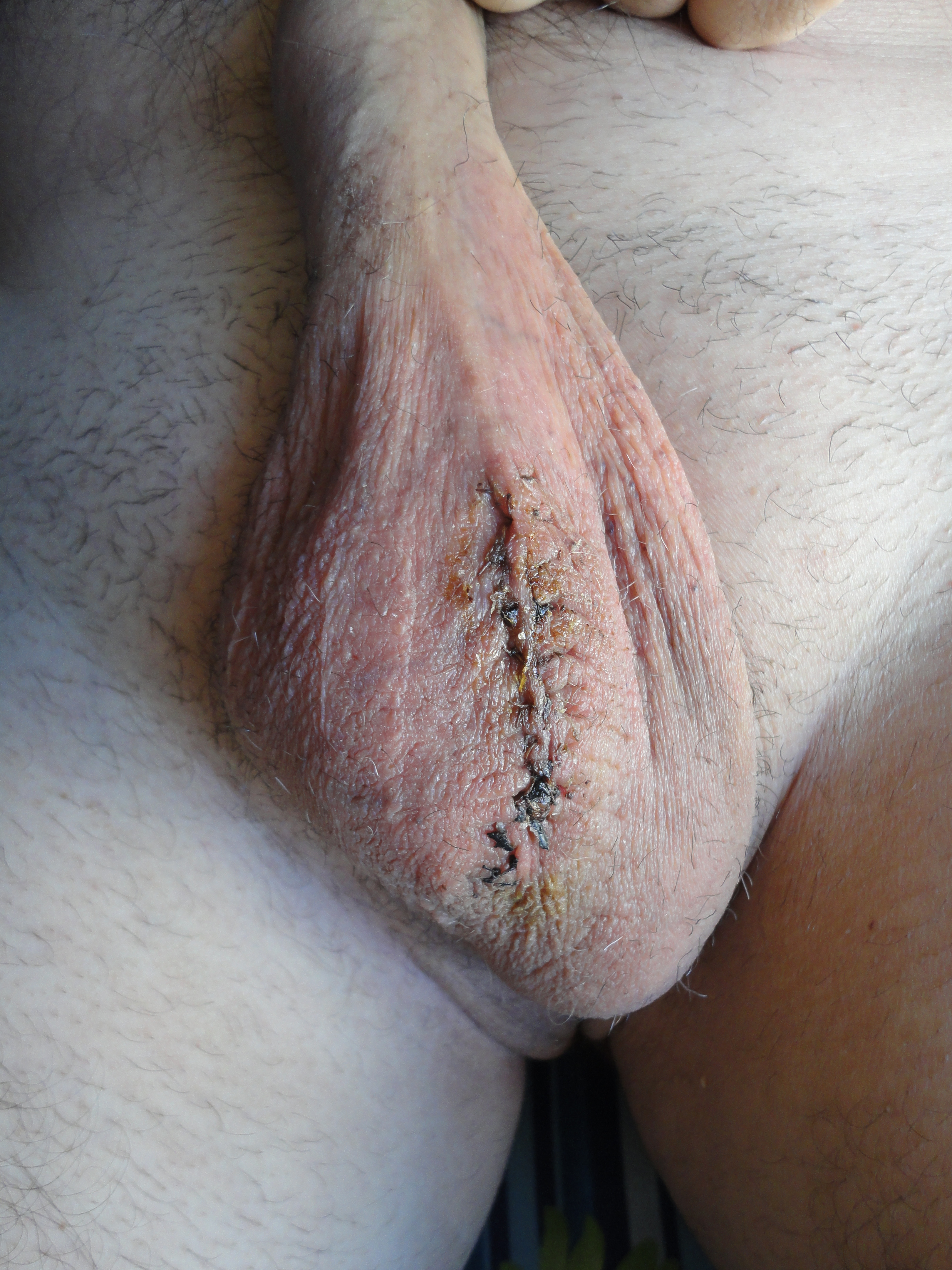 Testicles after hydrocele reduction